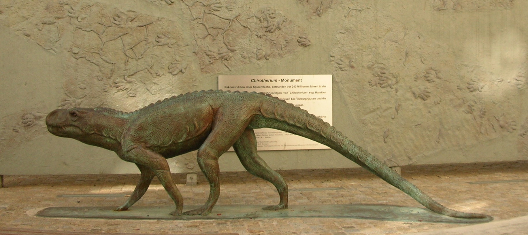 Chirotherium monument in Hildburghausen/Germany in honour of the first scientific description of a tetrapod trace fossil (Chirotherium barthii). The monument is composed of a wall showing the reconstruction of the original track-bearing slab on which the description of C. barthii was based (background), and a bronze sculpture figuring the assumed trackmaker (sculptor: Martin H. Kroniger; scientific work: H. Haubold, Universität Halle). The original fossils are housed in about 30 collections all over Europe. The sandstone in which these footprints are preserved is about 240 million years old (Lower Triassic). Chirotherium has probably been made by members of the early archosaurs, the ancestors of birds, crocodiles and dinosaurs.